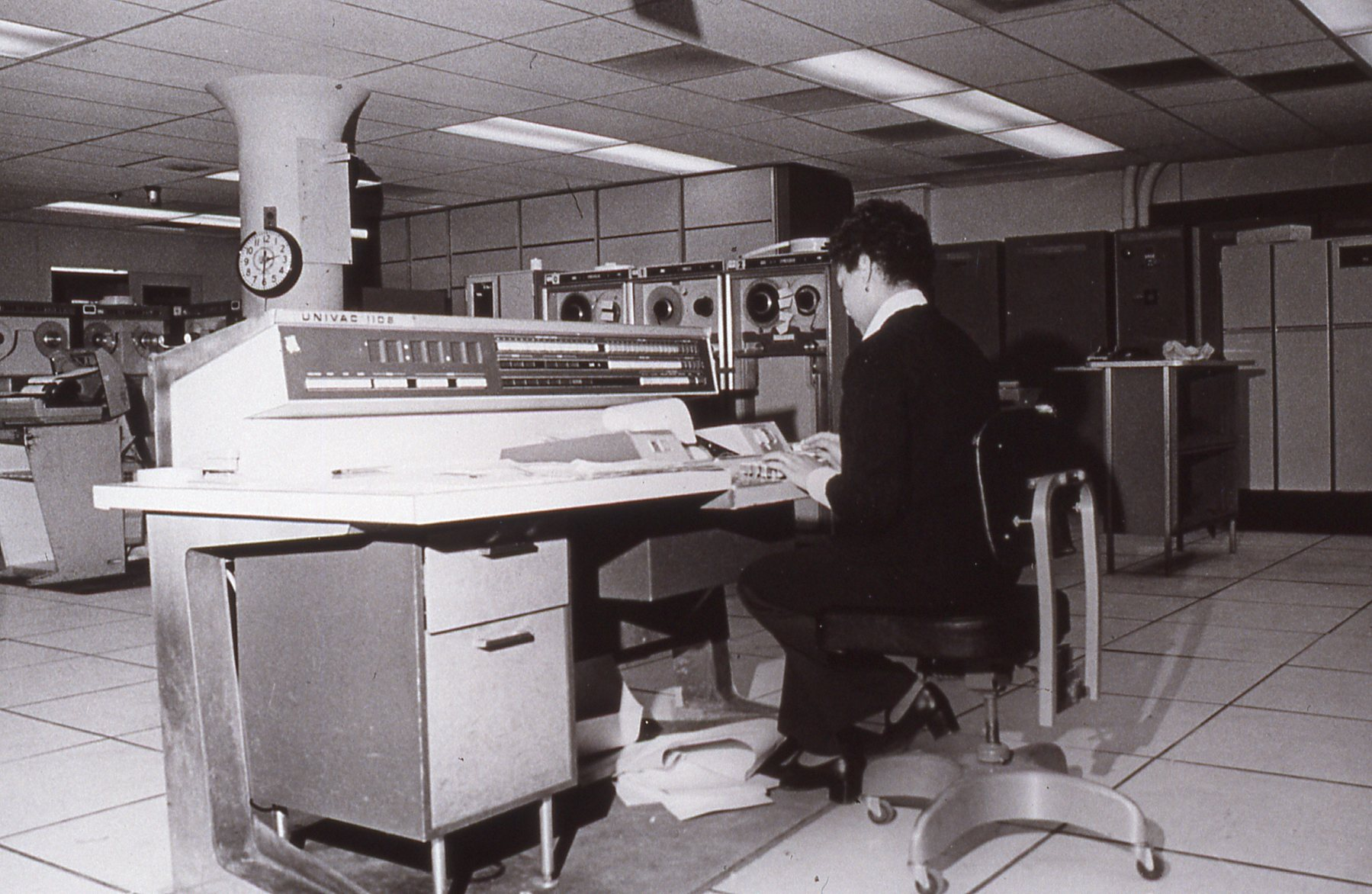 A Census Bureau employee operates one the agency’s UNIVAC 1100 series computers. We purchased five 1105s between 1958 and 1962 to process data from the economic censuses and 1960 Census of Population and Housing. We replaced the1105s with UNIVAC 1107, 1108, 1106, and IBM 1401 computers for the 1970 Census.